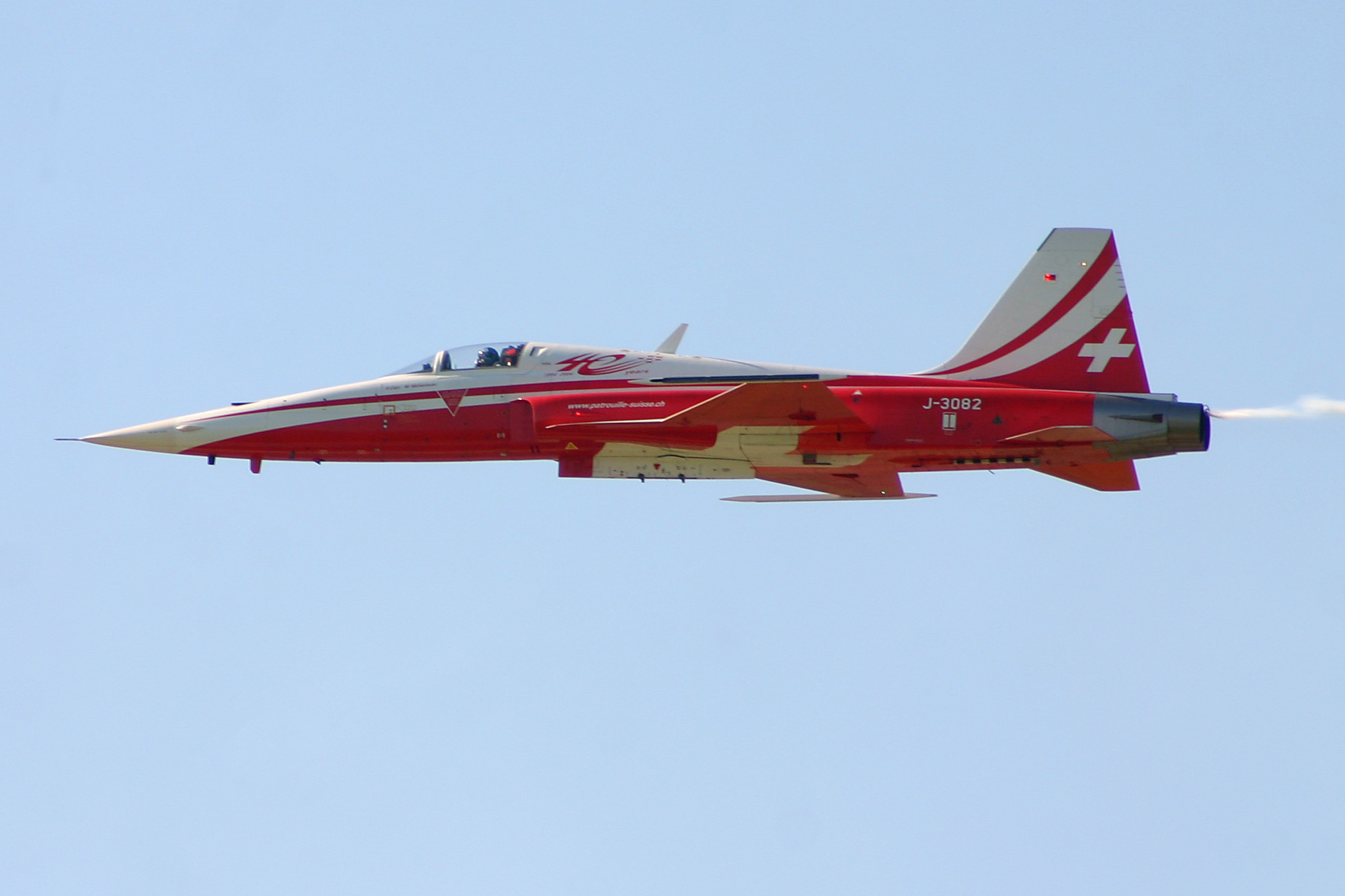 Patrouille Suisse, Air 04, Payerne, Switzerland